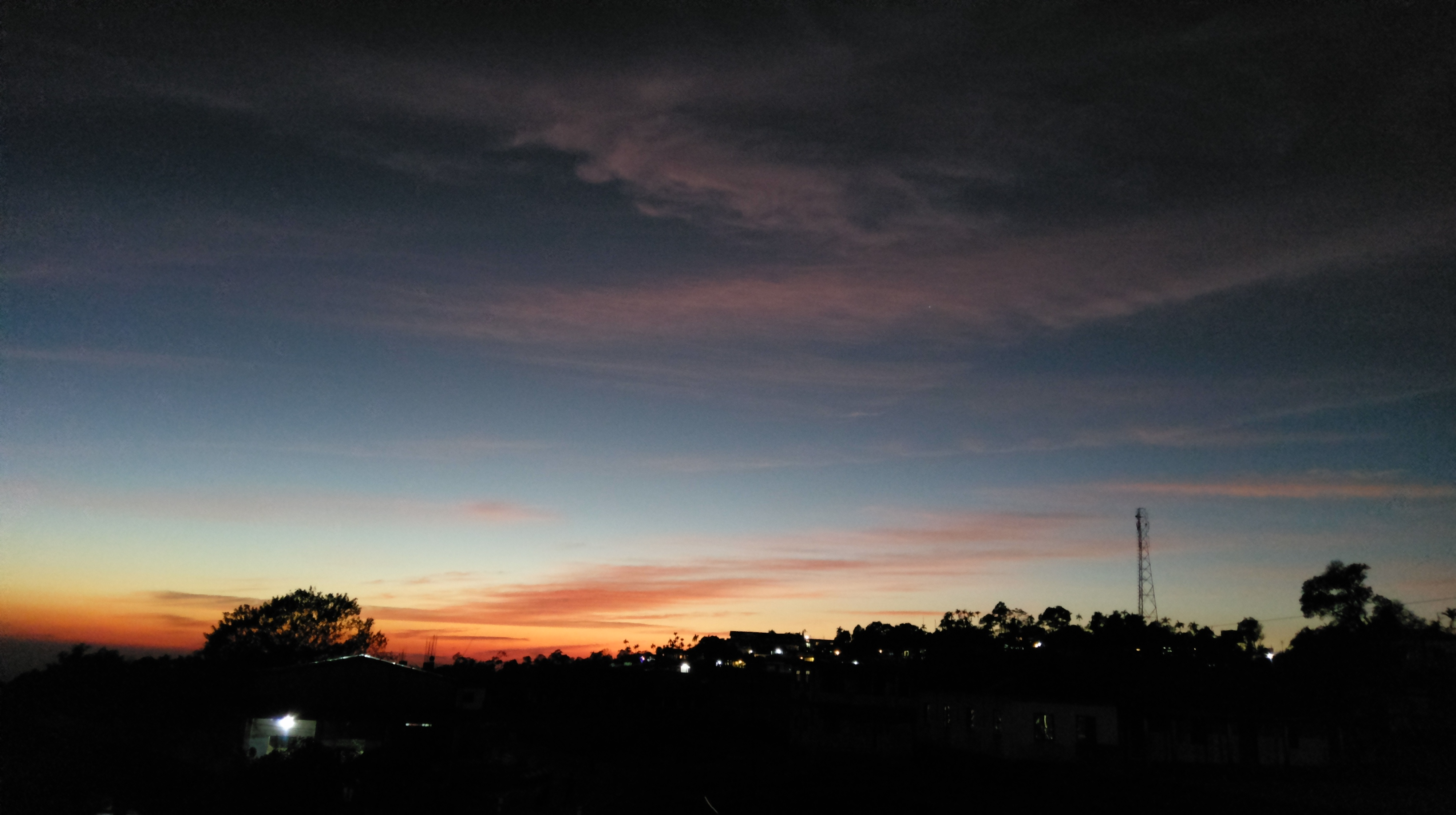 Nongtalang Town